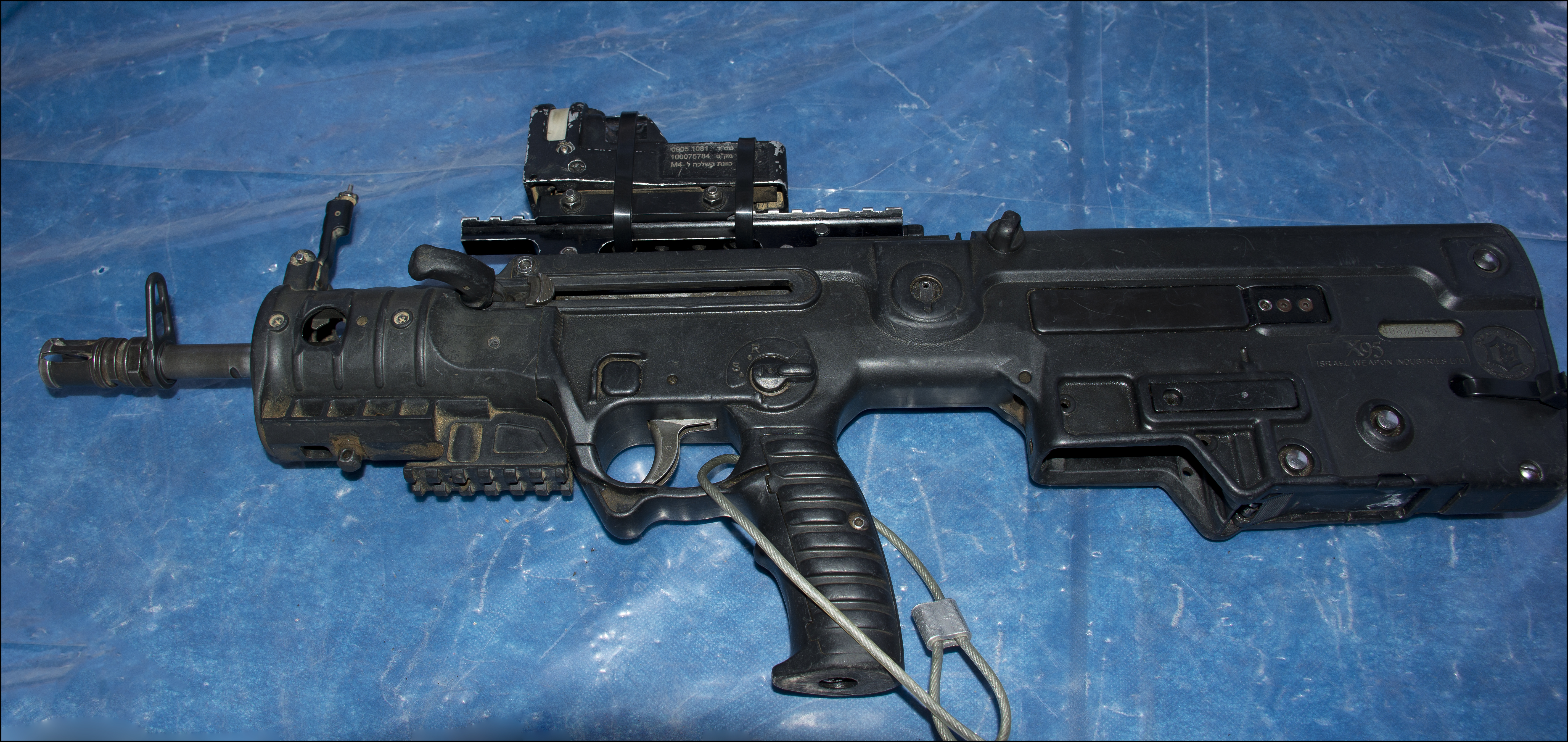 Micro-Tavor X95L designated marksman rifle, Israel's 70th Independence Day